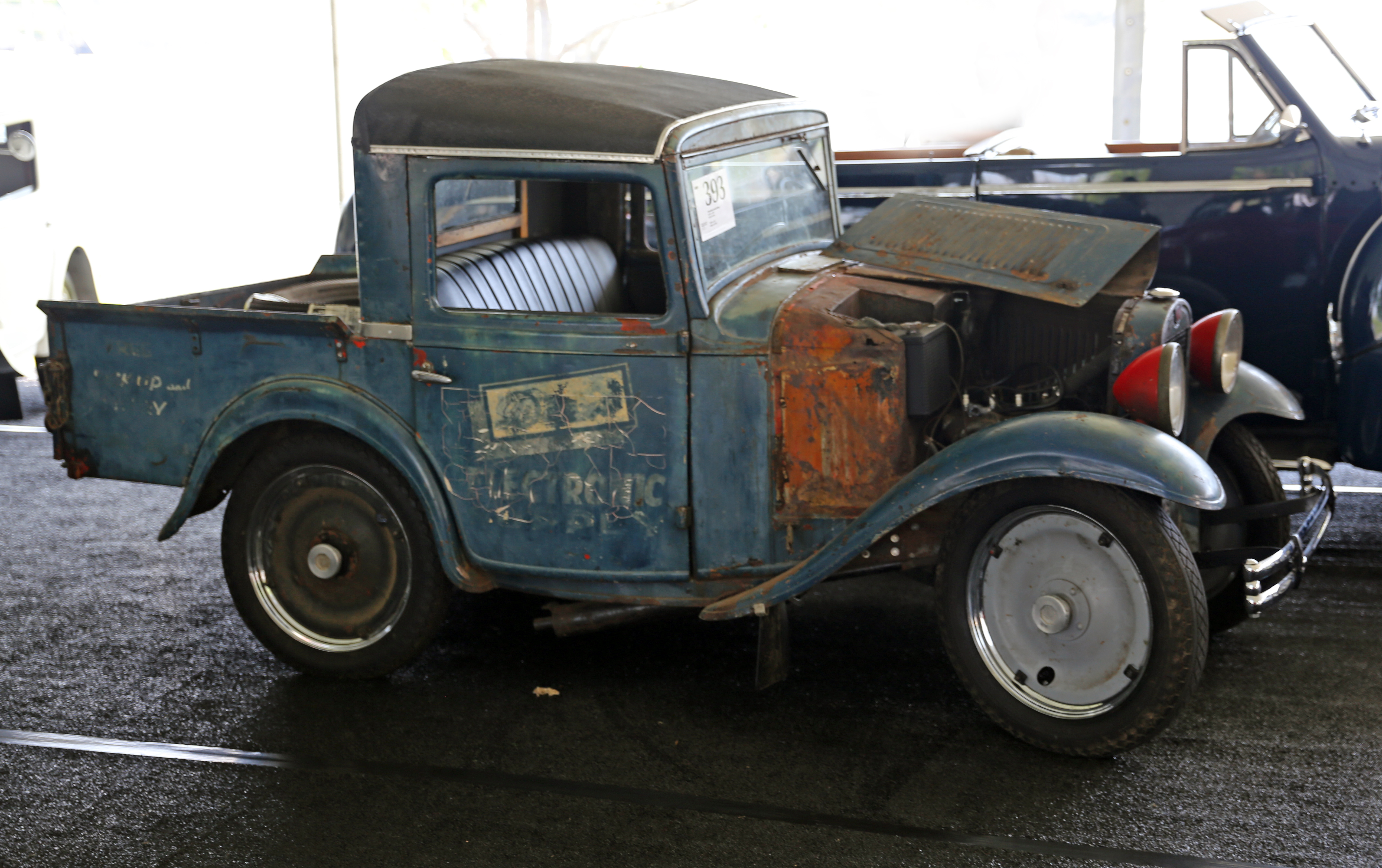 1933 American Austin Pickup at the Bonhams auction attached to the 2013 Greenwich Concours d'Elegance. Original livery, what's left of it. S/N 342, engine M16713.